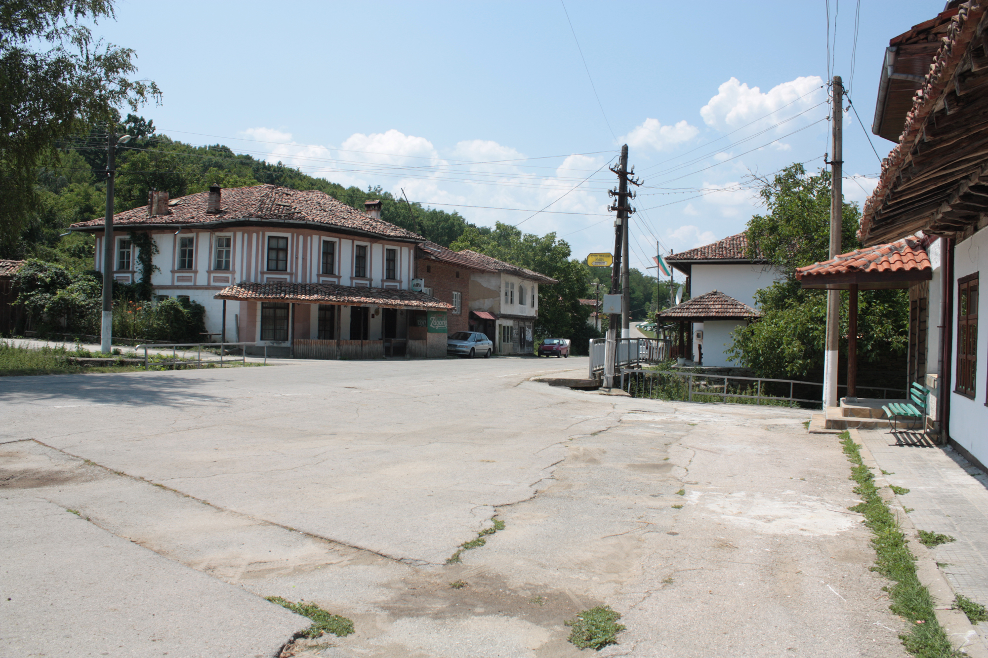 Central square of Yakovtsi village in Bulgaria